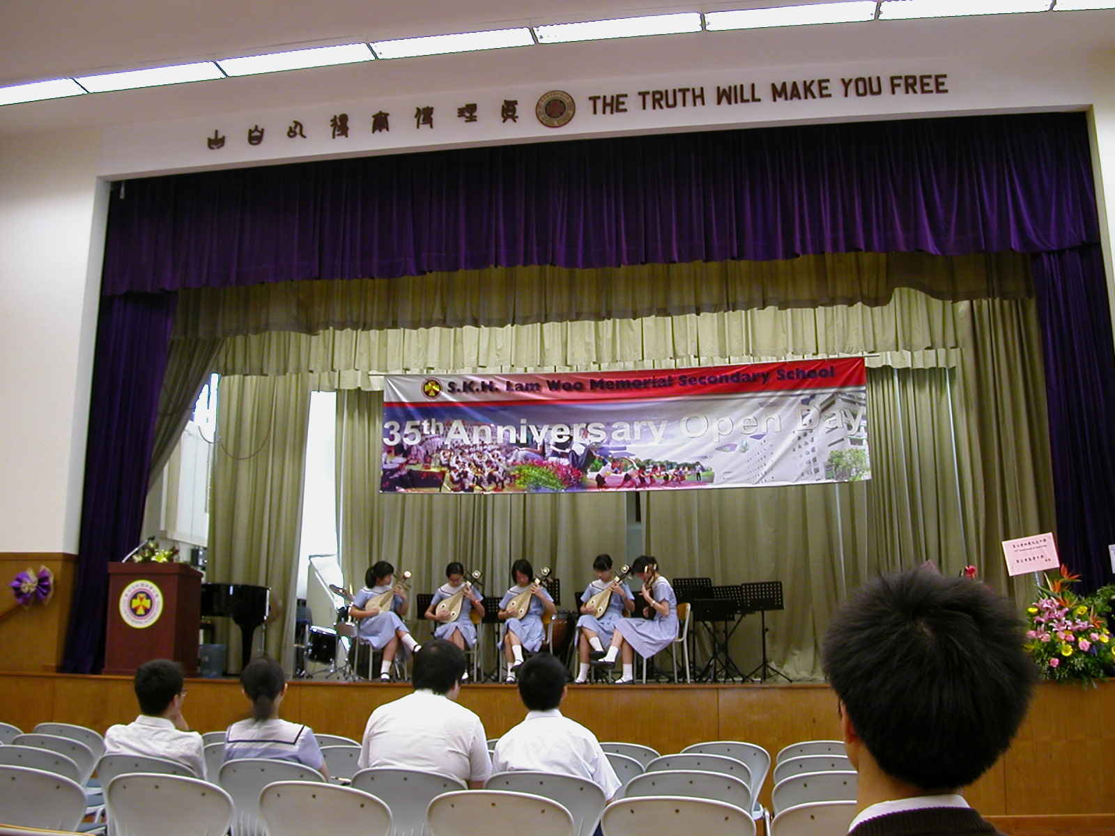 The School Hall of SKH Lam Woo Memorial Secondary School on the 35th anniversary open day with students performing Chinese music. --Nxn 0405 chl| 09:55, 5 February 2006 (UTC) Summary The School Hall of SKH Lam Woo Memorial Secondary School on the 35th anniversary open day with students performing Chinese music. --Nxn 0405 chl 09:55, 5 February 2006 (UTC)